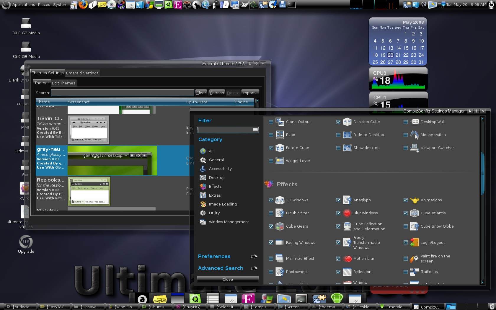 Screenshot of Ultimate Edition 1.8